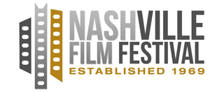 The current logo for the Nashville Film Festival as of 05/09/2017